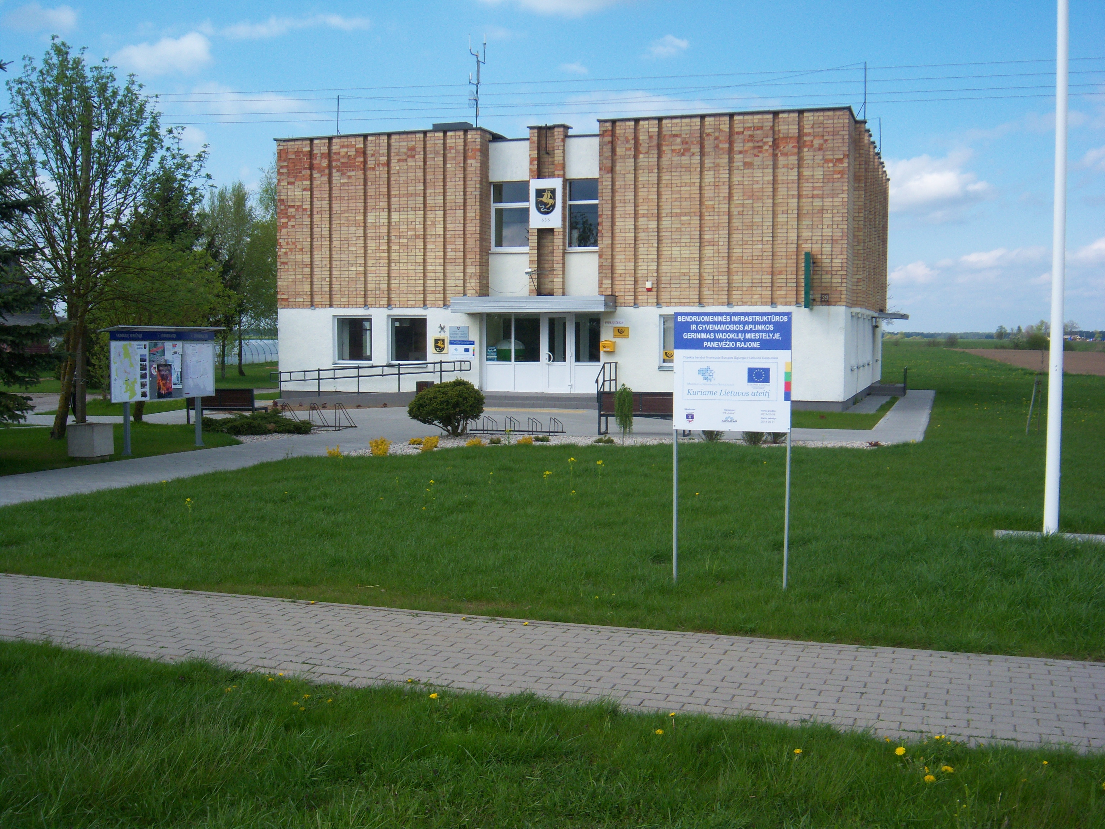 Eldership, post office, Vadokliai, Panevėžys District. Lithuania